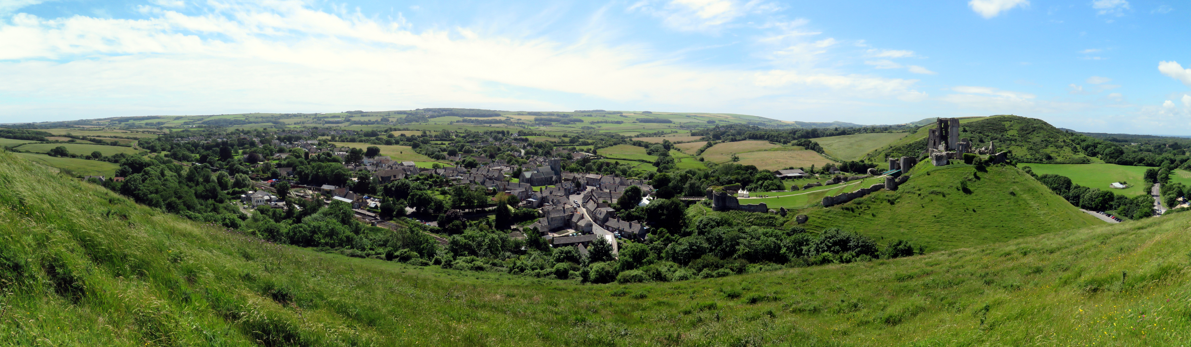 Panoramic image of the castle and village of Corfe Castle